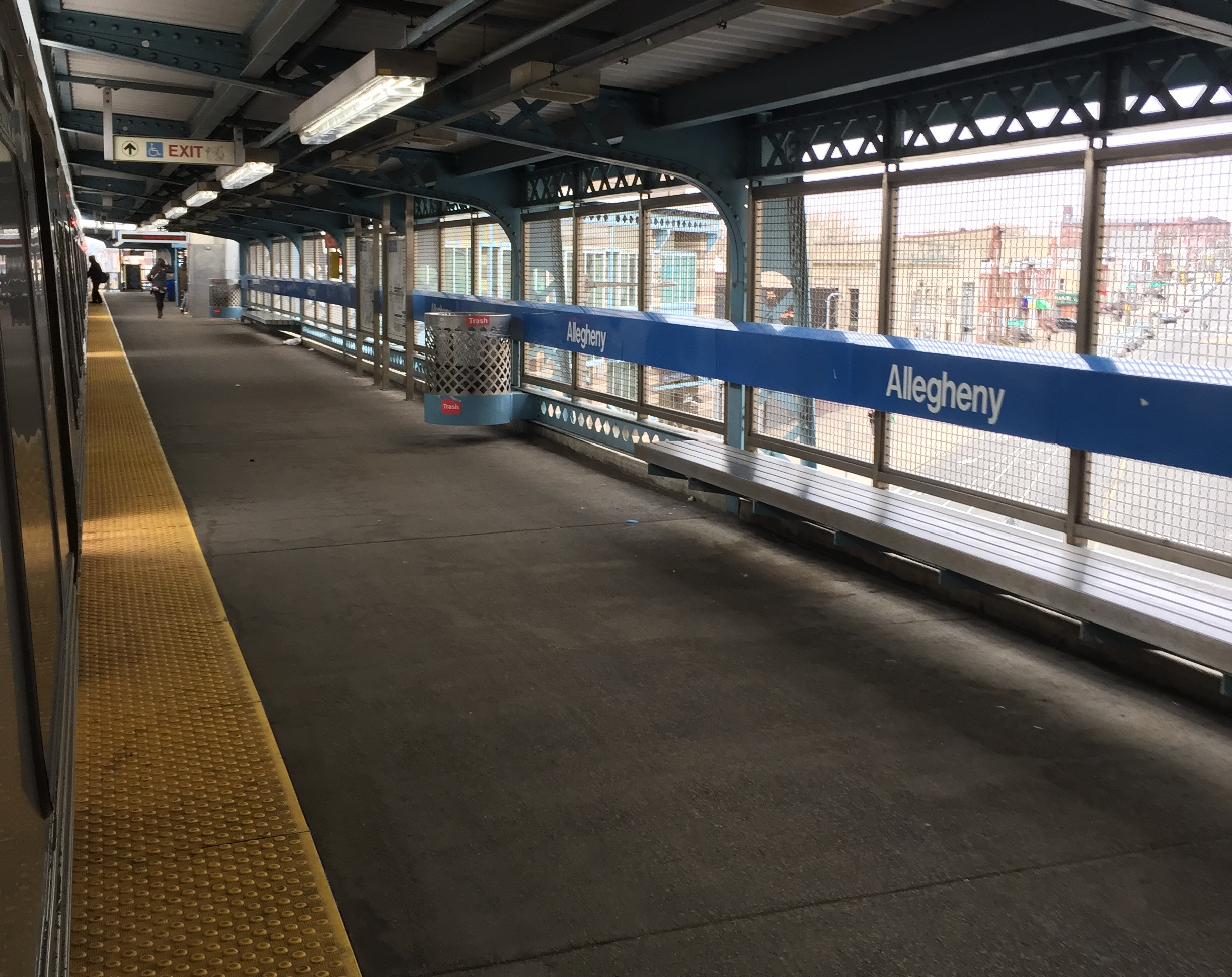 Allegheny station in Philadelphia in April 2018